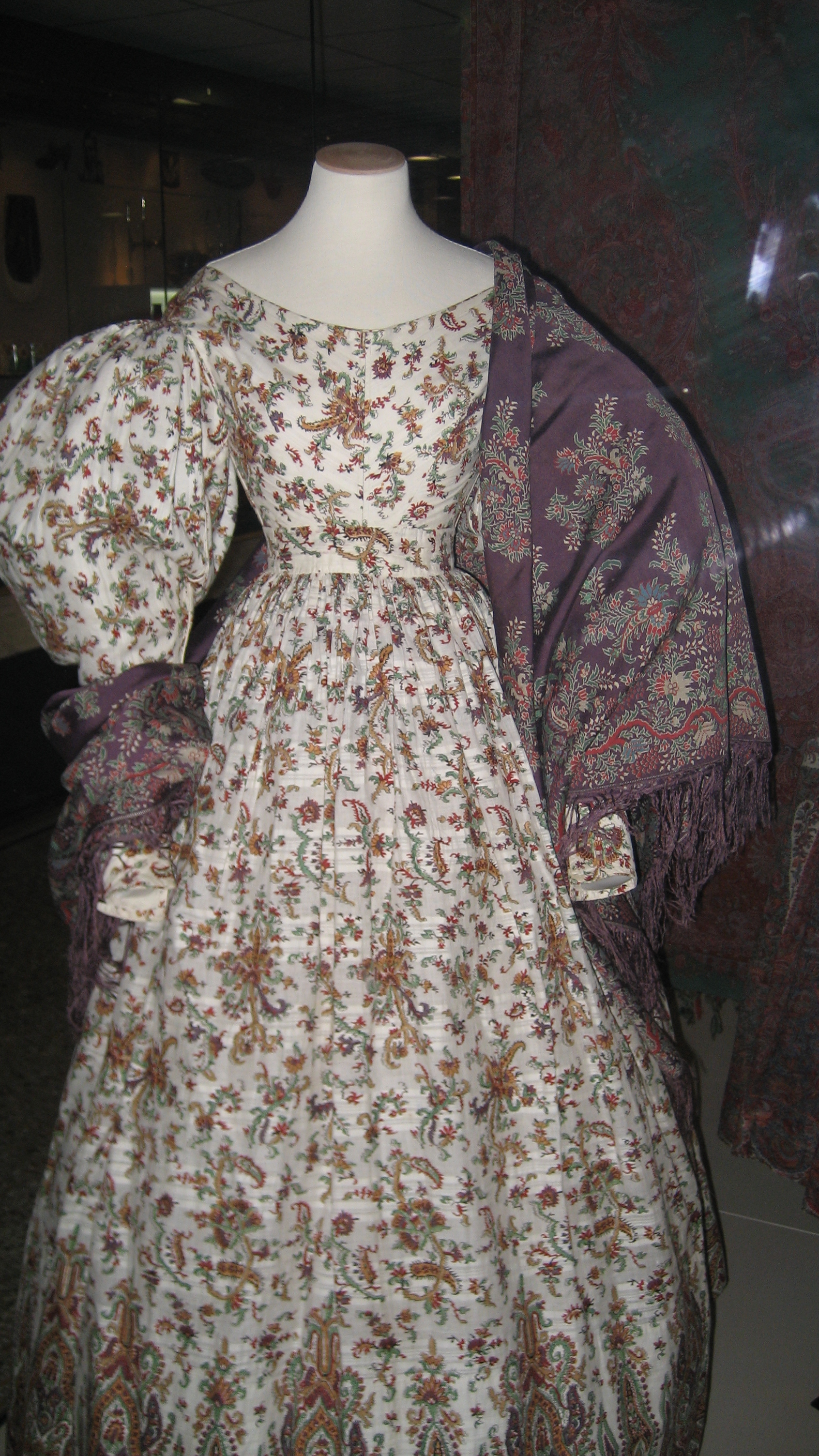 A Willett & Nephew shawl, on display at Norwich Castle